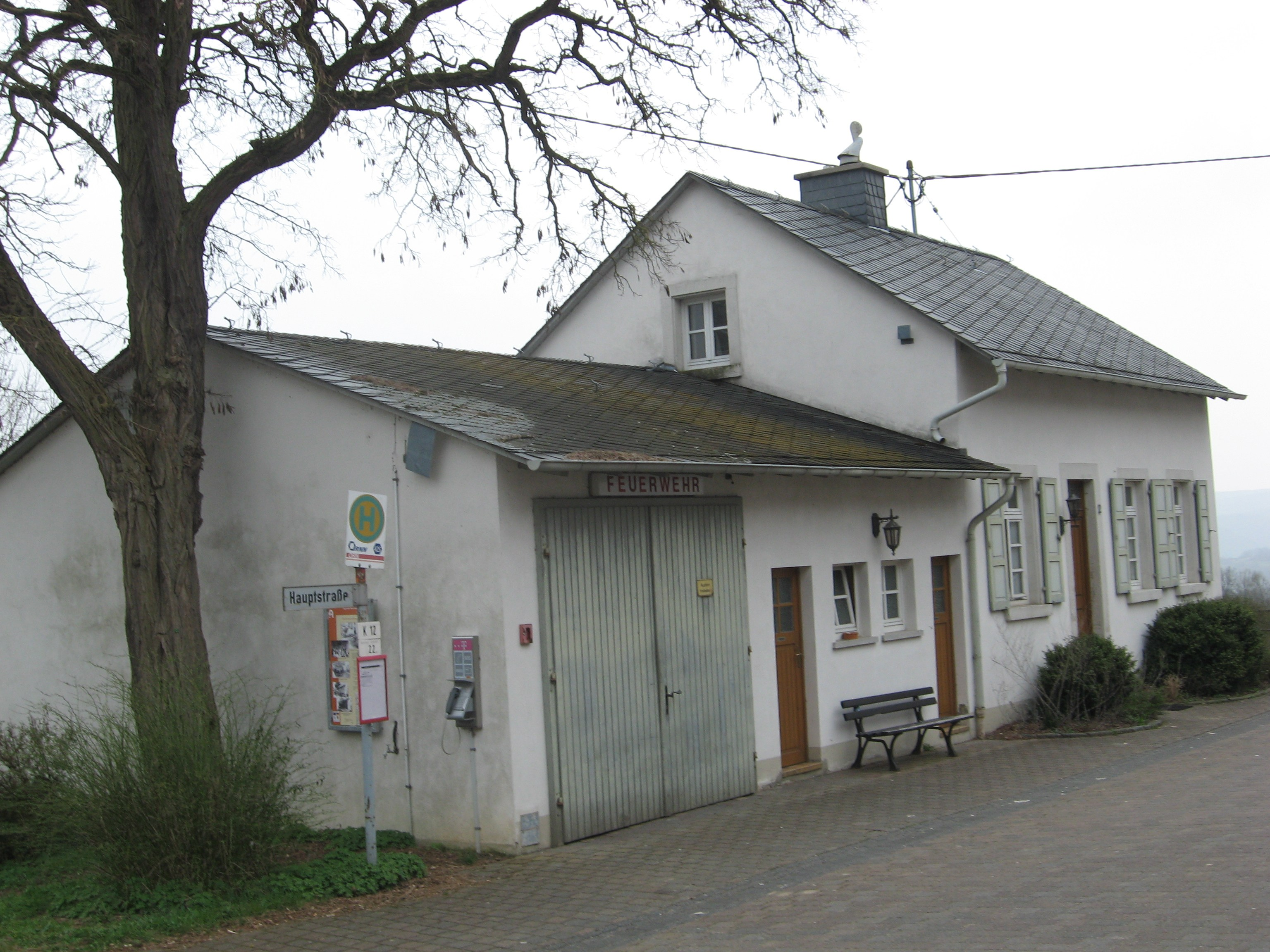 Recent school building in Brauweiler, Hunsrück landscape, Germany.